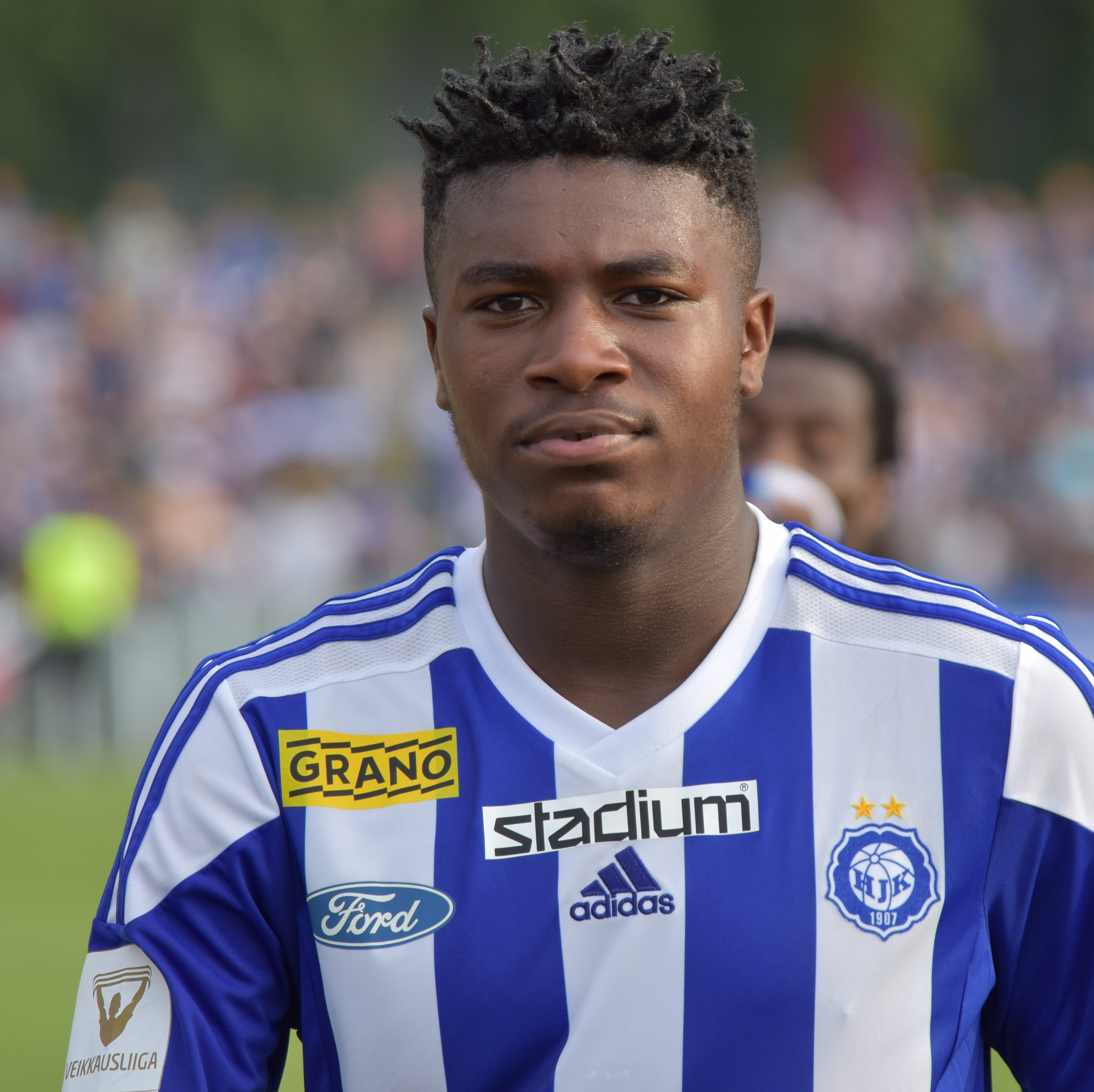 Association football player Enoch Banza (HJK)